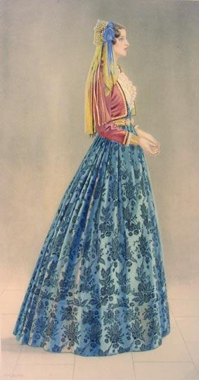 Greek Woman's Urban-type Dress (Thessaly, Pelion) - Greek Costume Collection by NICOLAS SPERLING (Russia 1881-1940 / act: Athens).